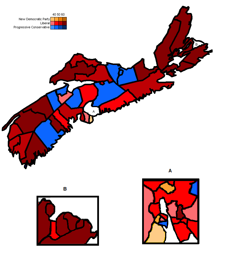 Riding-by-riding vote share for each party in the 1993 Nova Scotia election.